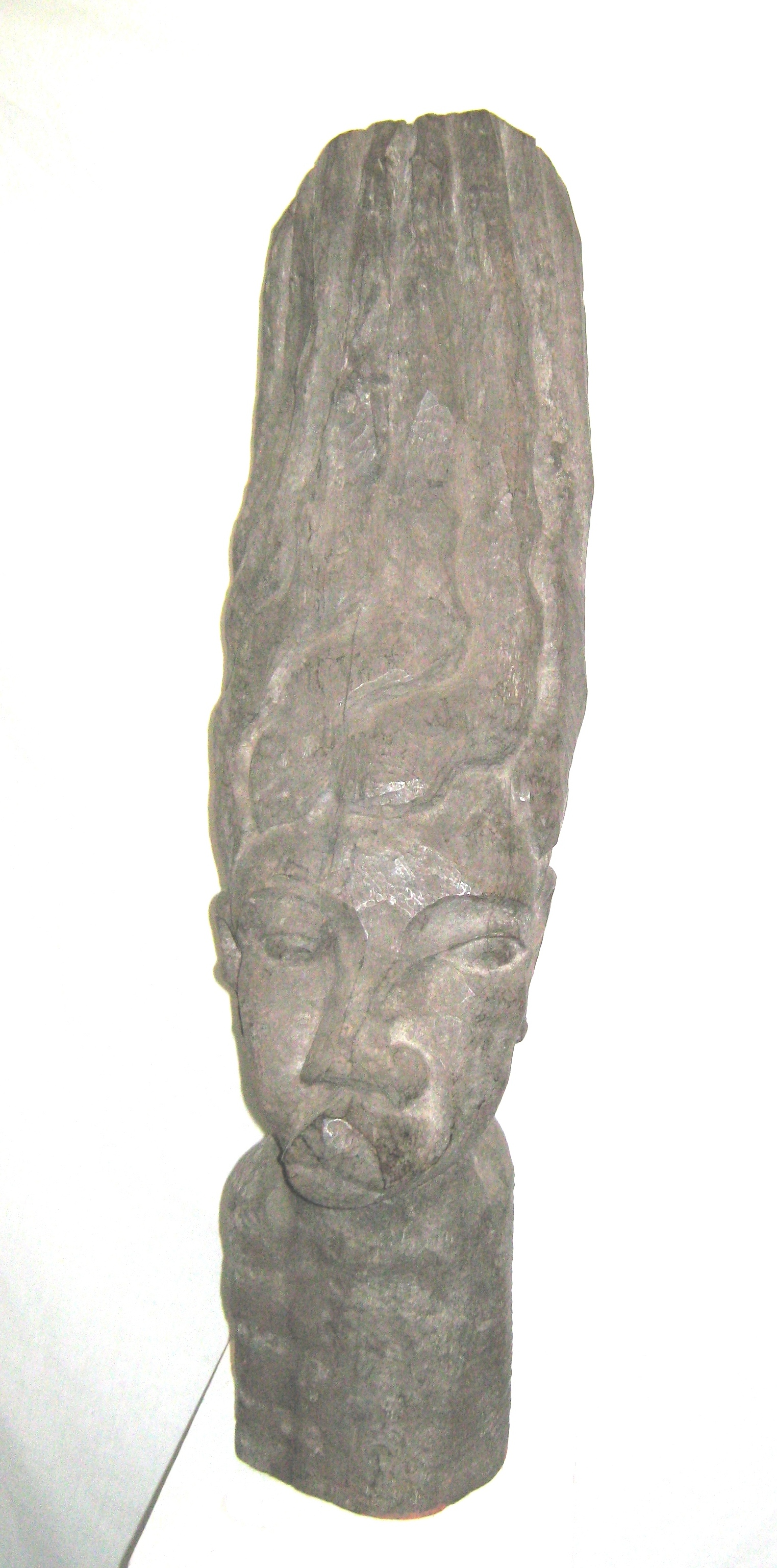 Tapfuma Gutsa, nehanda's Defiance